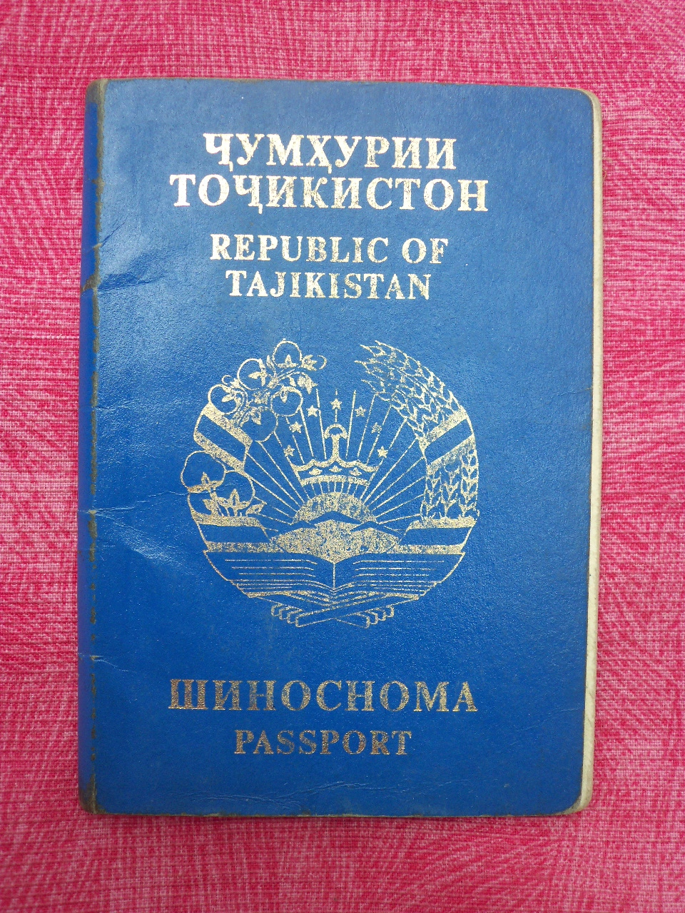 2005, Tajikistan Machine-readable Passport.